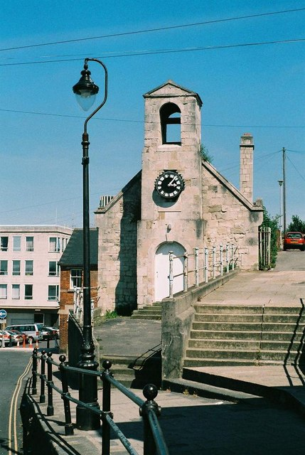 Weymouth: the old town hall